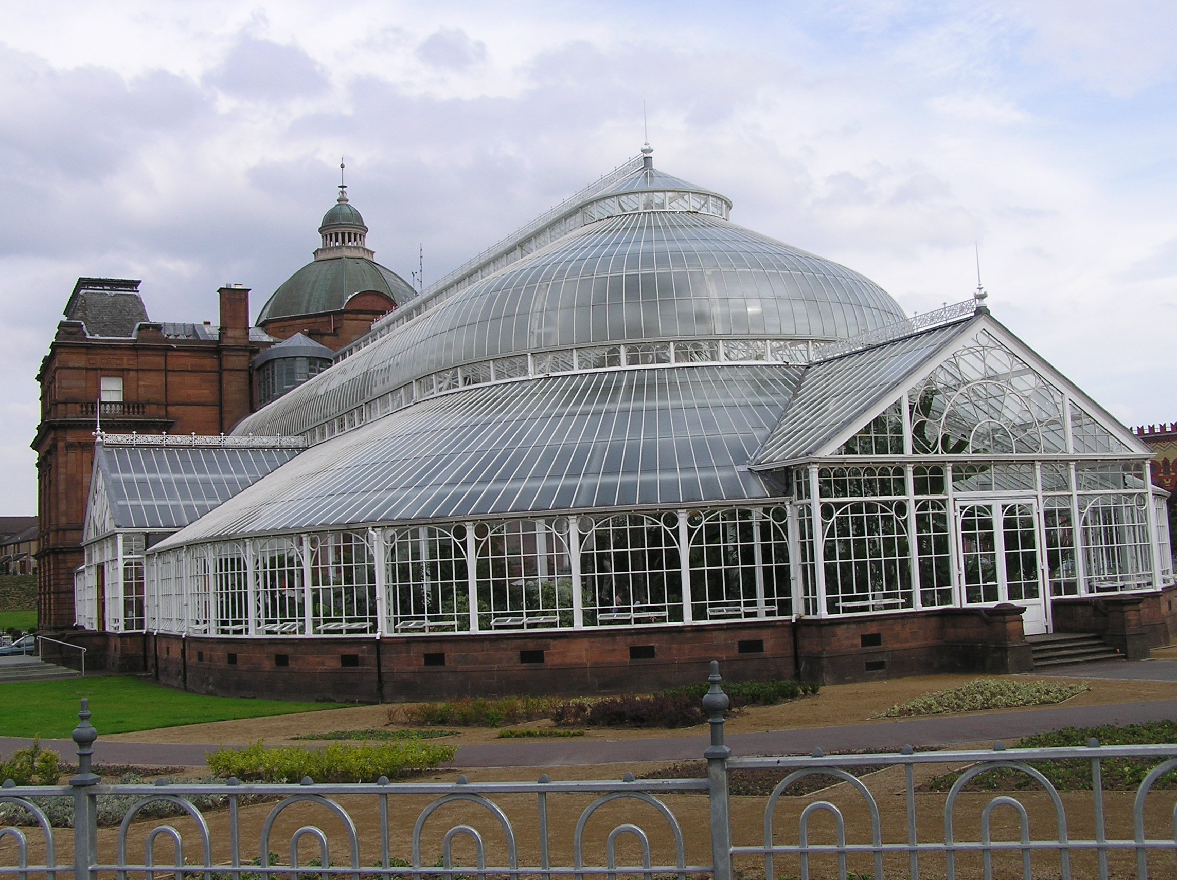 The rear of the People's Palace museum in Glasgow, Scotland Taken by user:Finlay McWalter on the 3rd of September 2005